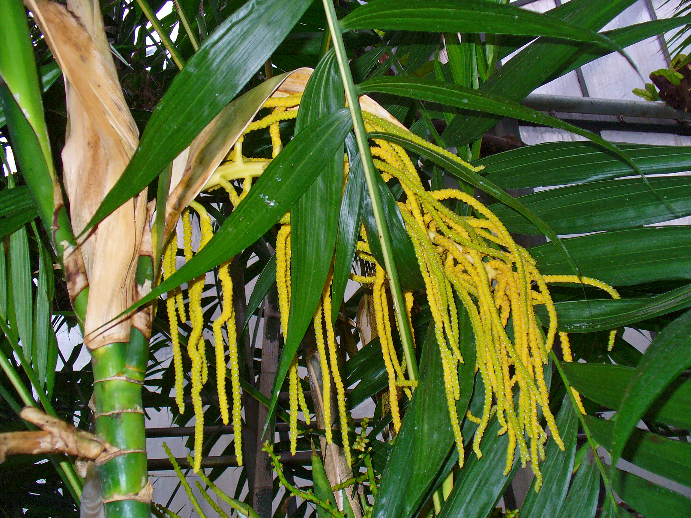 Chamaedorea tepejilote, Arecaceae, inflorescence; Botanical Garden KIT, Karlsruhe, Germany.